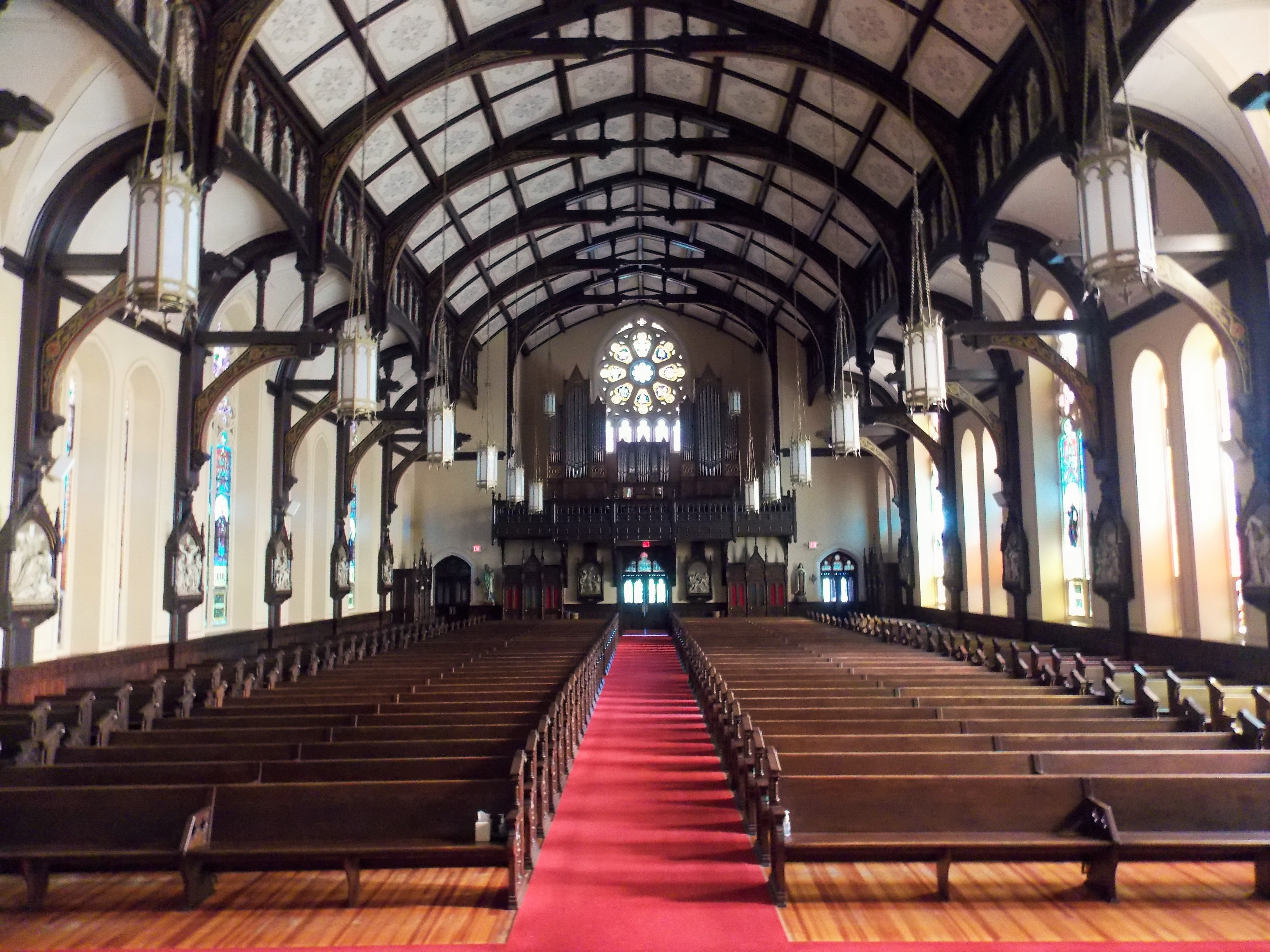 The interior of Sacred Heart Cathedral in Davenport, Iowa from the altar.